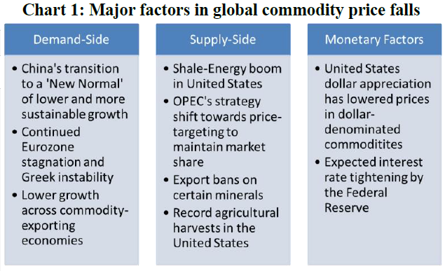 Chart 1